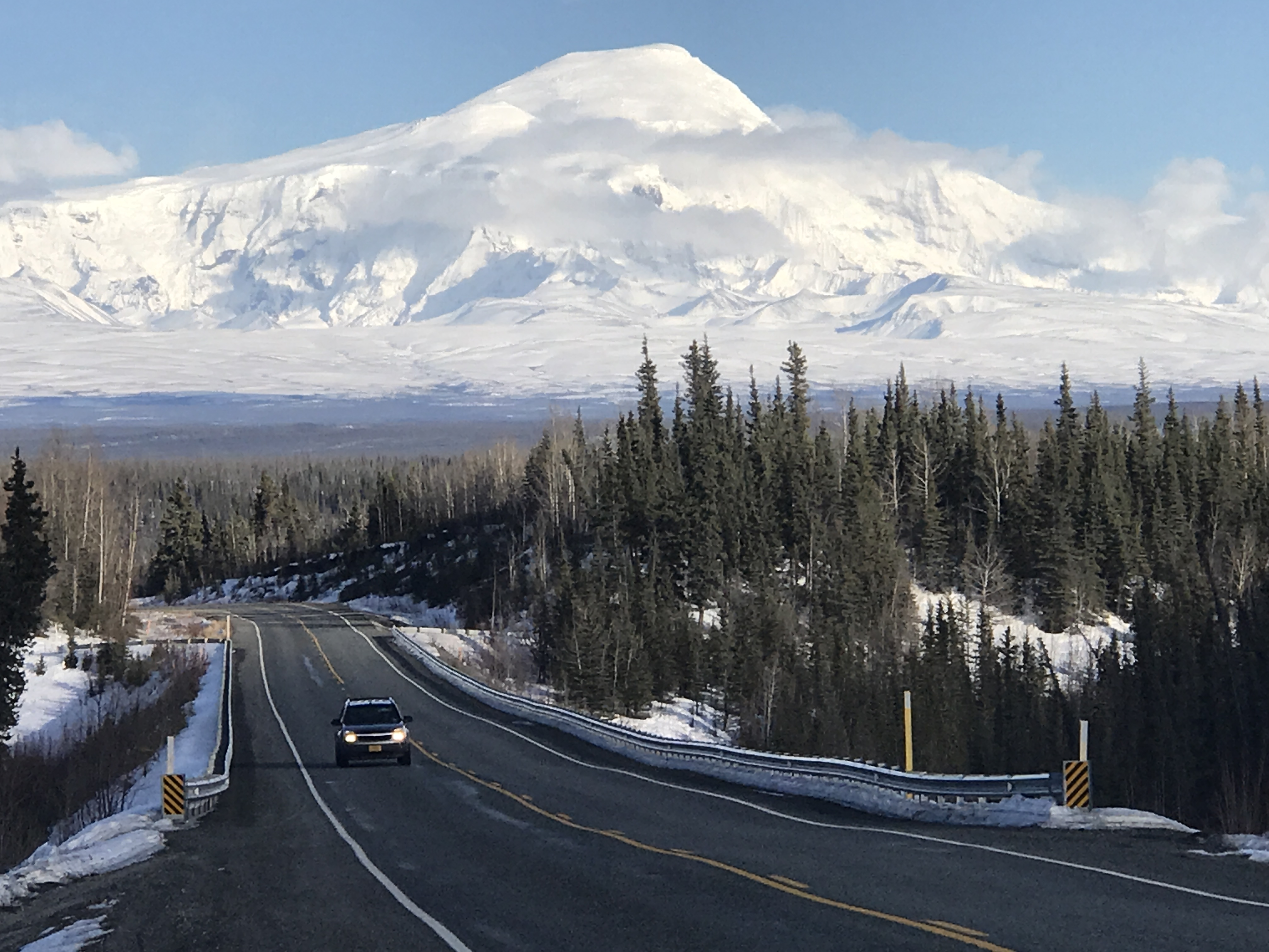 View of Mount Sandford from Tok Cutoff Highway.